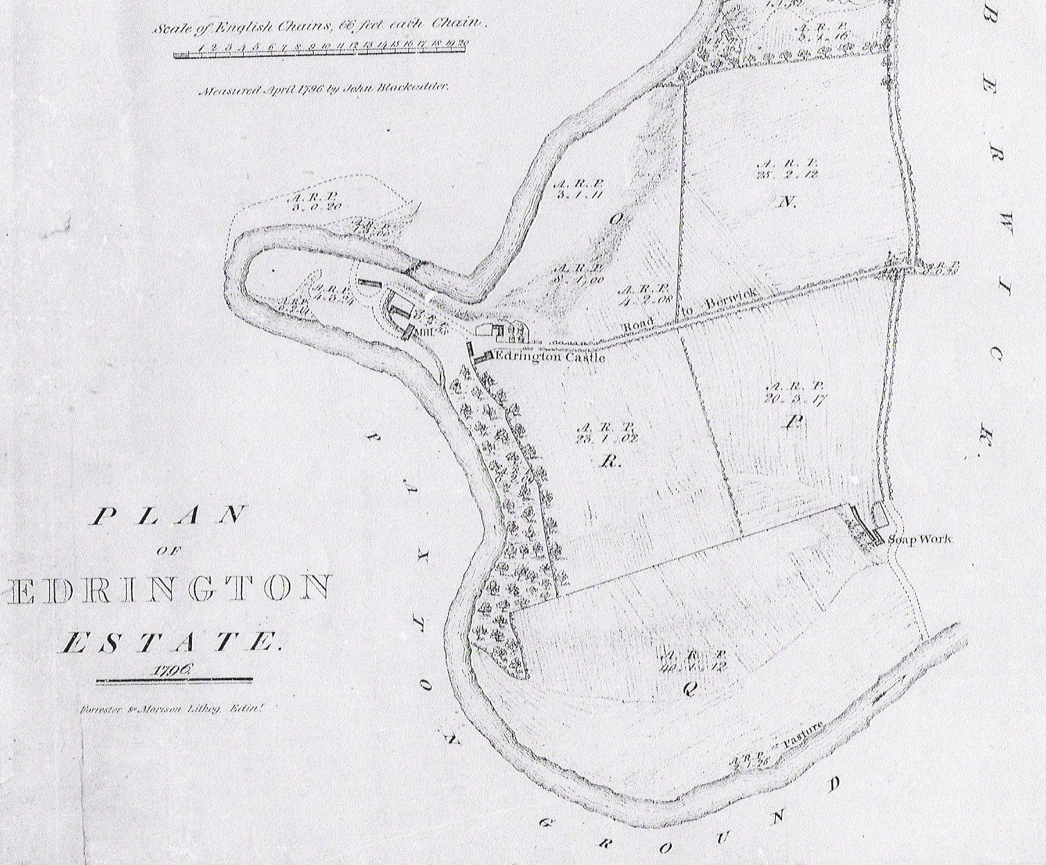 This is a corner of a 1796 plan of Edrington estate which shows the Whiteadder Water, Edrington Castle, and the Mill.